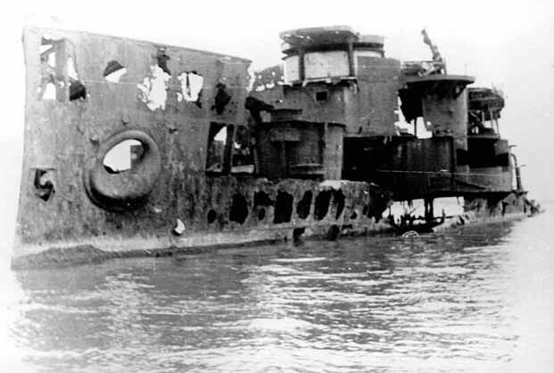 Cruiser Comintern.